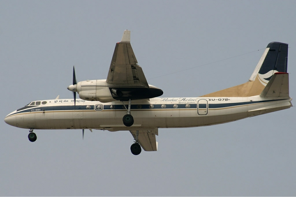 President Airlines Xian Y-7-100C